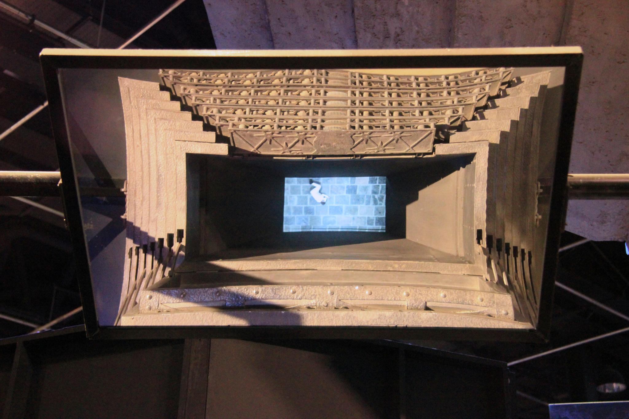 Warner Bros. Studio Tour London: The Making of Harry Potter.